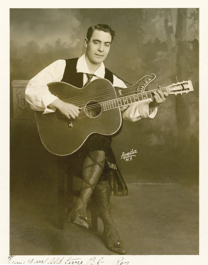 1909 publicity photo of 20th-Century recording artist Roy Butin with his harp guitar.